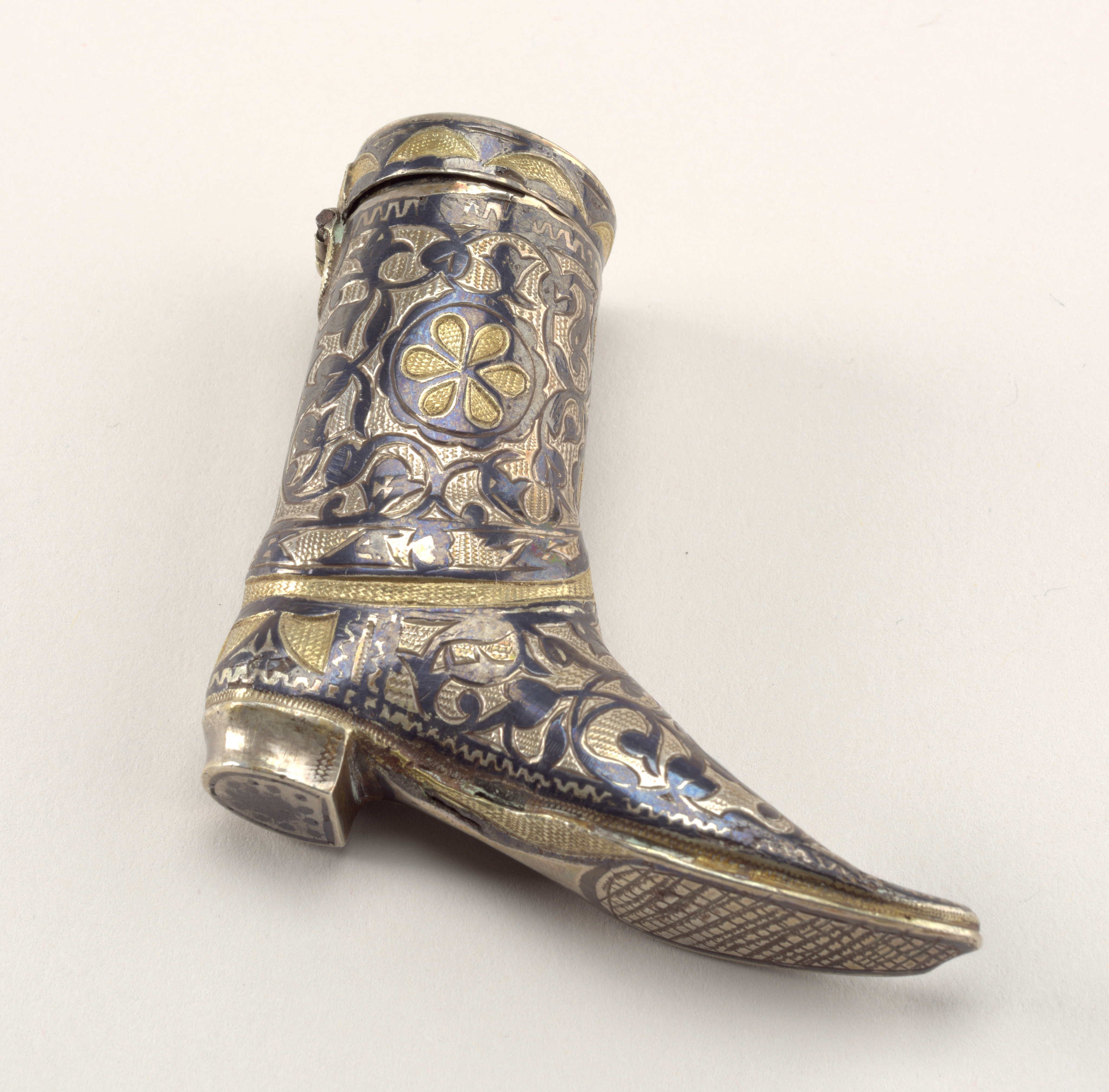 In the shape of a high boot, with stylized floral and vine decoration in niello and gilding. Lid is on top, hinged on back side. Striker on sole of toe section.